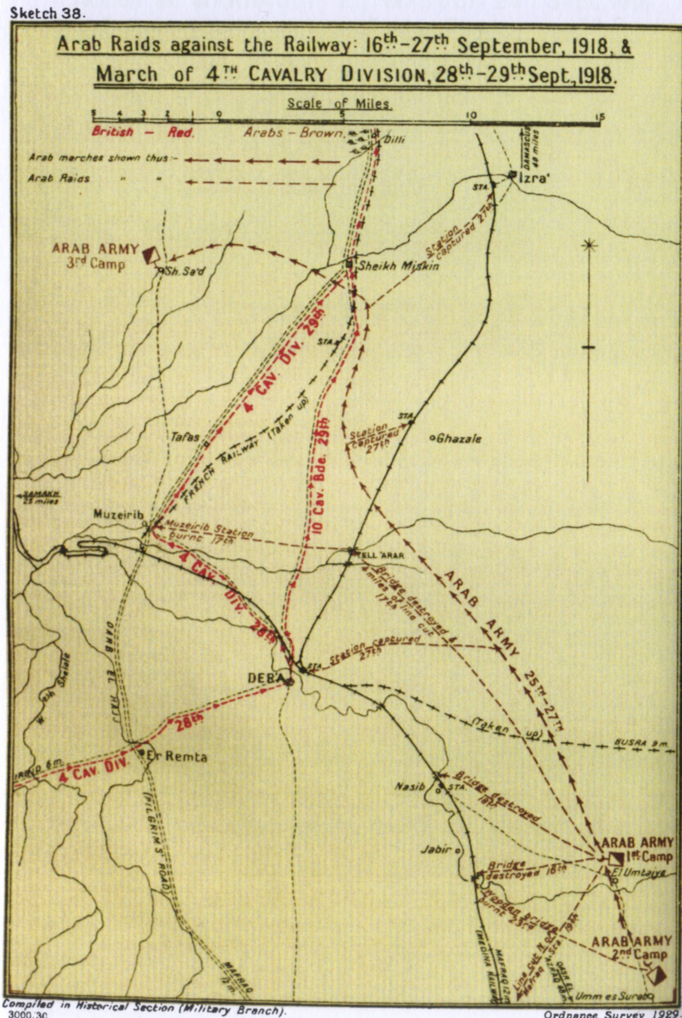 Falls Sketch Map 38 of the Deraa area Other information Crown copyright access unrestricted